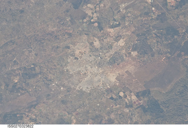 Astronaut Photo of Lusaka, Zambia taken from the International Space Station (ISS) during Expedition 27 on May 6, 2011.